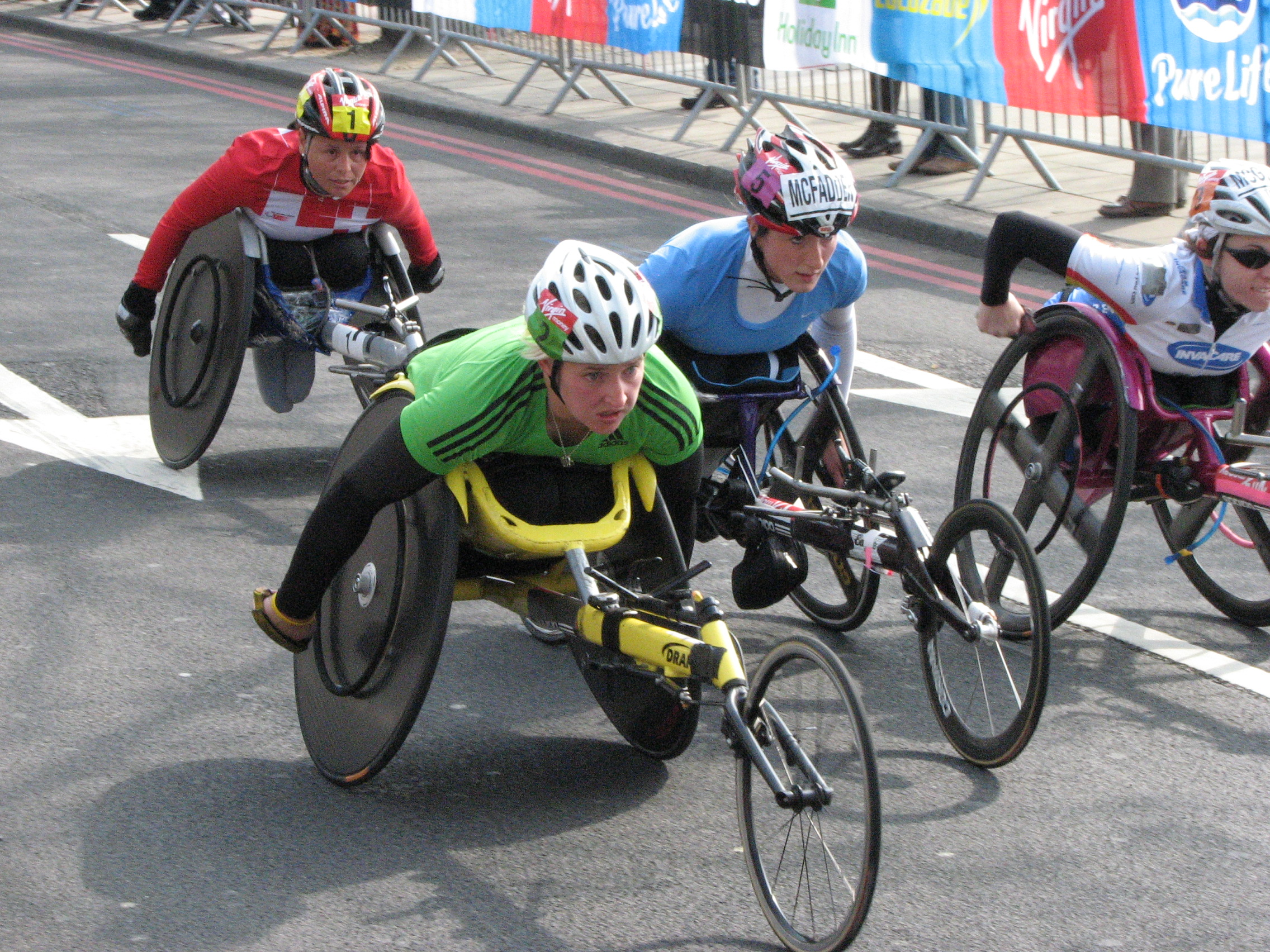 The women's wheelchair race at the 2011 London marathon (left to right: Sandra Graf, Shelly Woods, Tatyana McFadden, Amanda McGrory). The pack with 1.5 miles to go. McGrory, who won in Paris the weekend before, outsprinted Woods on the Mall to win in a course record, both being given the same time of 1:46:31. Virgin London Marathon, 17 April 2011. Taken from 24 and a half miles, at the (western) junction of Victoria Embankment and Temple Place, very close to the Walkabout.